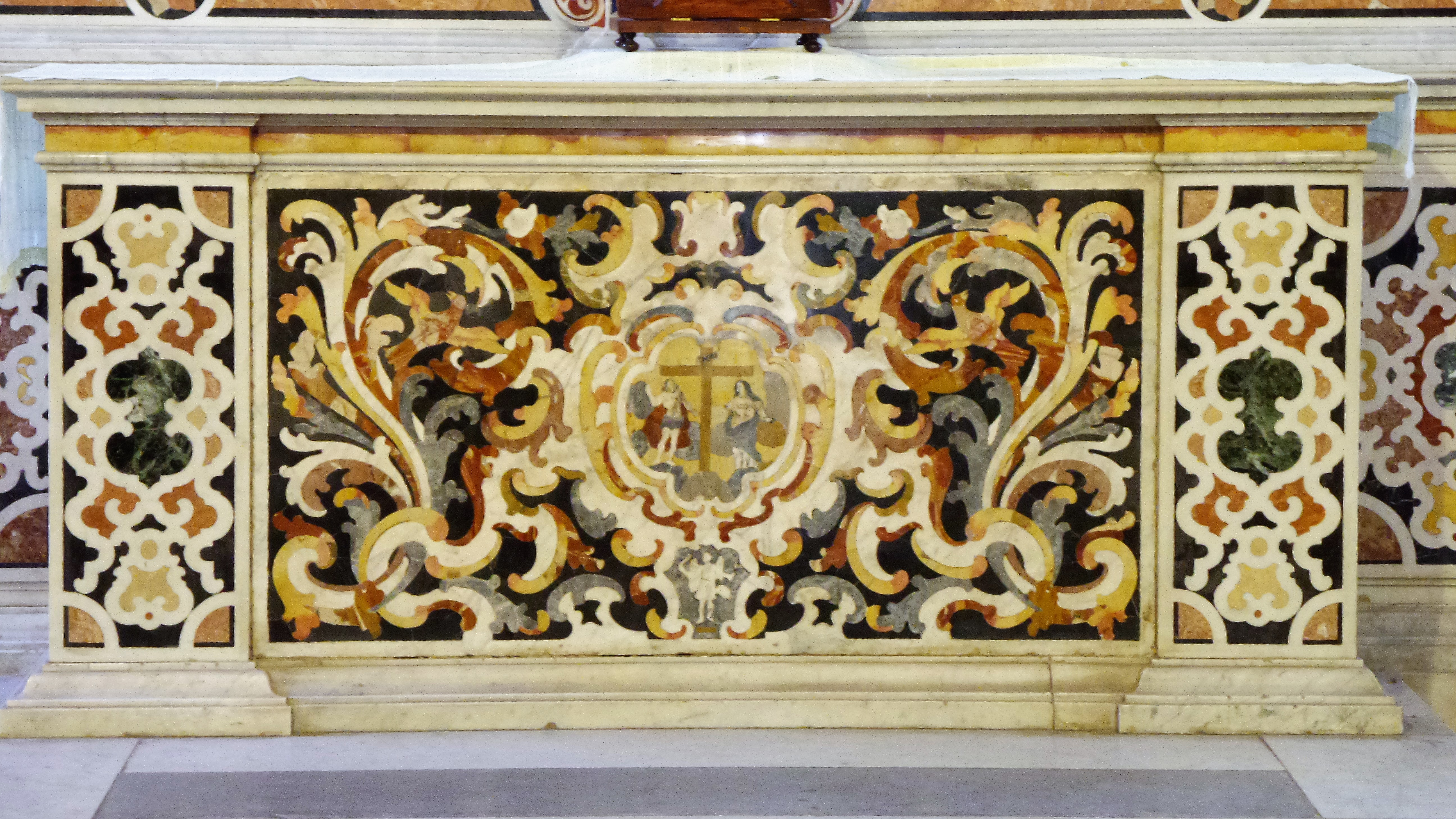 Temple Christ the King (Messina), Memorial of WWI and WWII